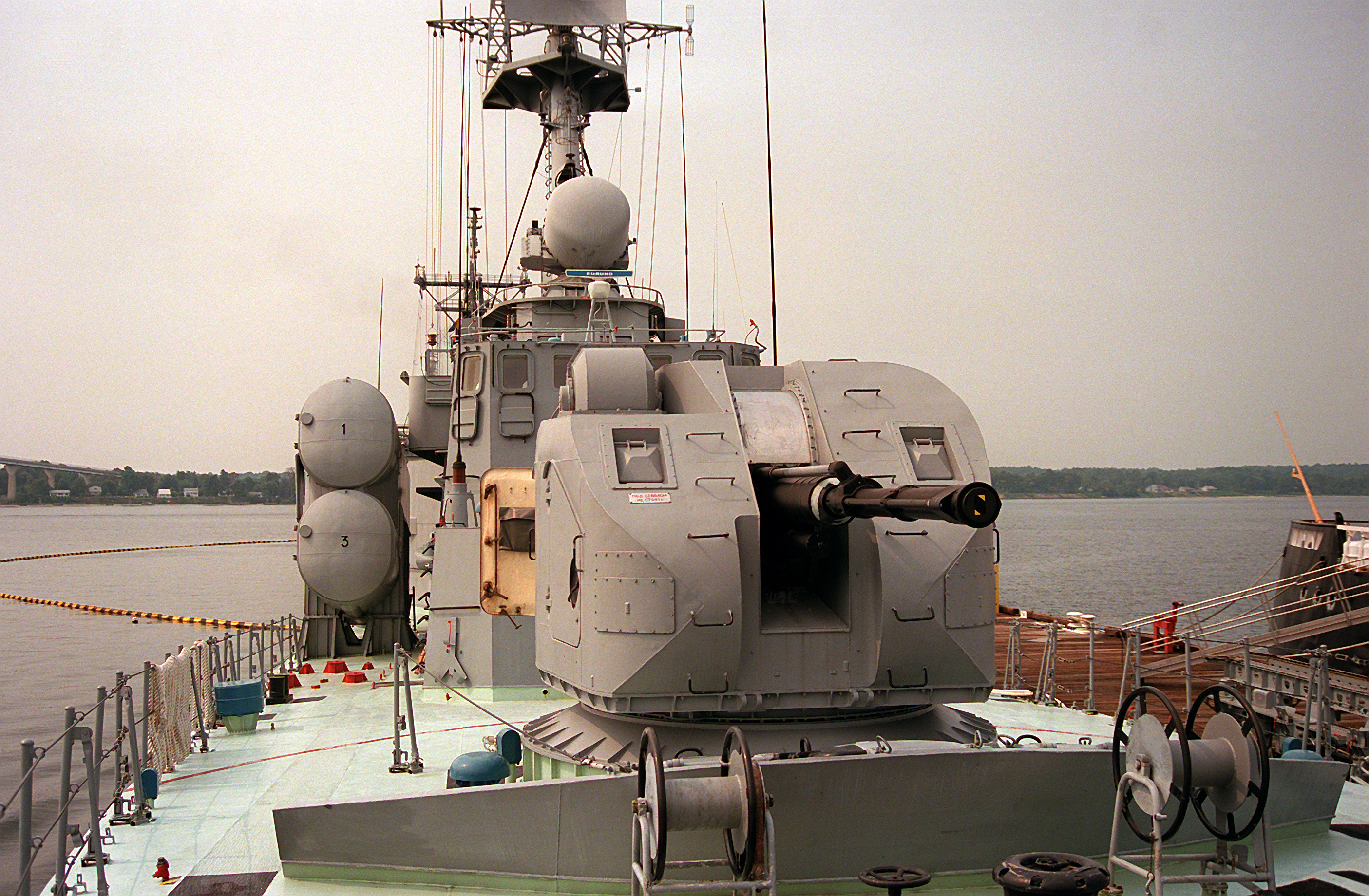 A view of the AK-176 76.2mm/59 caliber dual-purpose gun on the bow of the USNS HIDDENSEE (185NS9201) while the ship is moored at the Naval Sea Systems Command facility at Solomons Annex. The Soviet-built Tarantul I-class missile corvette was acquired from the Federal German navy in November 1991, and is currently undergoing testing and evaluation by the U.S. Navy. Named RUDOLF EGELHOFER in the East German navy, the ship was renamed HIDDENSEE after the reunification of Germany in 1990.